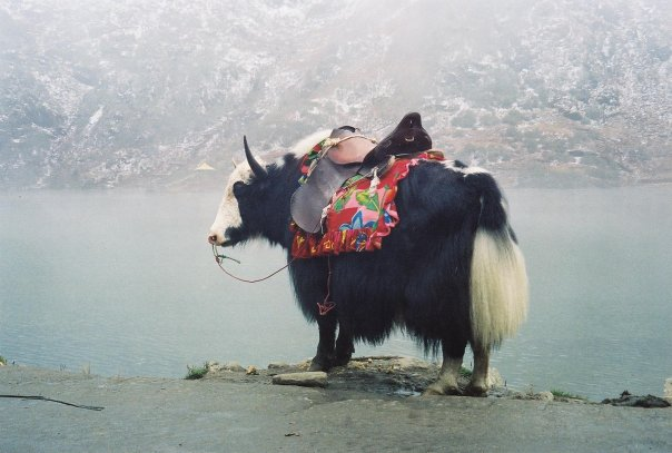 A yak near Tsomogo Lake in Nepal